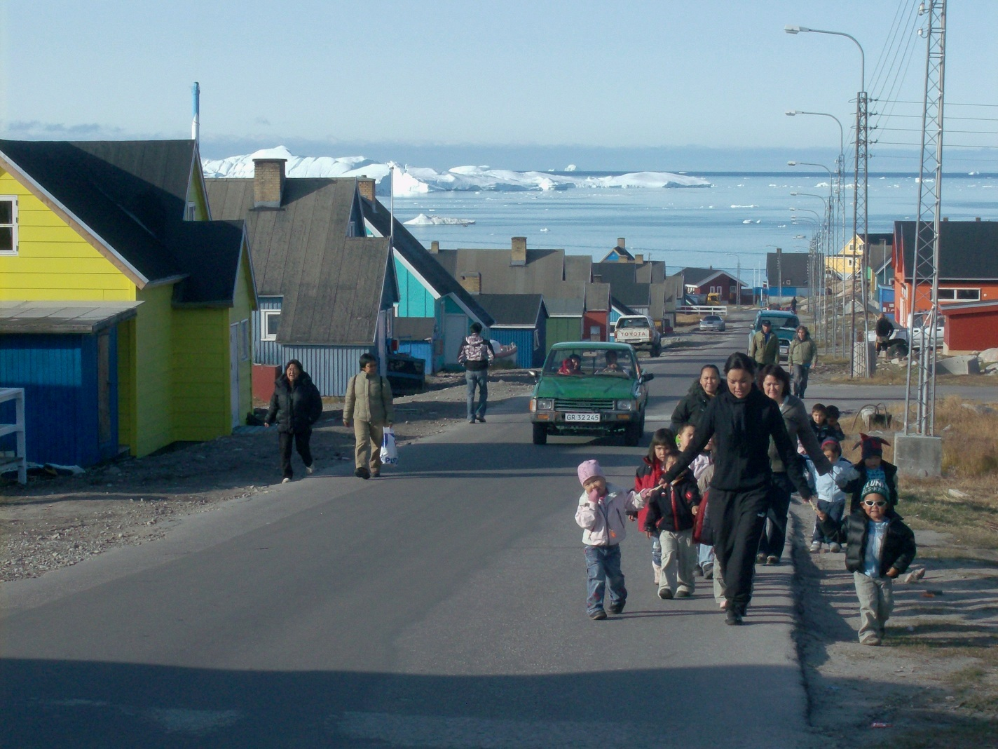 School children walk with their teacher through Ilulissat, Greenland, with icebergs floating out of the Ilulissat Icefjord in the background.